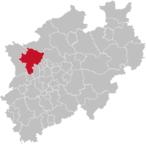 Map of Kreis Wesel, a District of Northrhine-Westphalia (NRW), Germany. Red/Grey colors match the color scheme of Germany maps and information boxes in German Wikipedia. Kreis is highlighted in red. Former version of map was based upon Image:North rhine w template.png that displayed some districts in the Cologne/Bonn area not correctly.based upon template